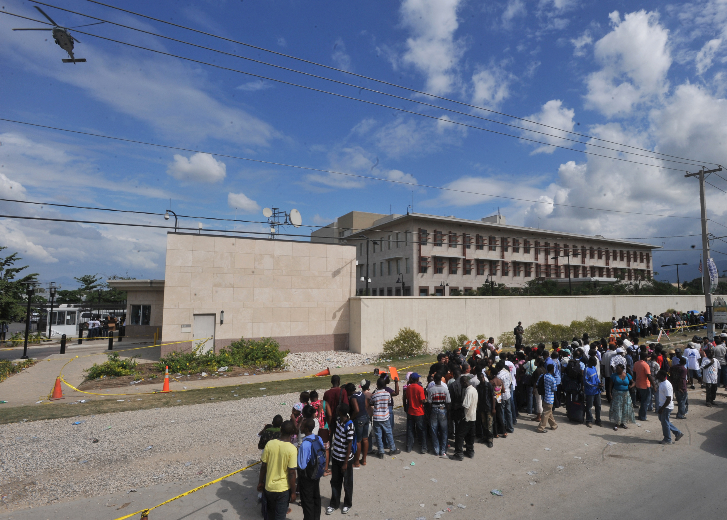 After the 2010 Haiti earthquake, Haitians line up in front of the U.S. embassy seeking to acquire a visa.